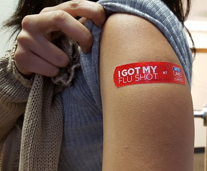 A young woman shows off her flu shot after receiving vaccine at a local drug store. Other information Cropped from the original